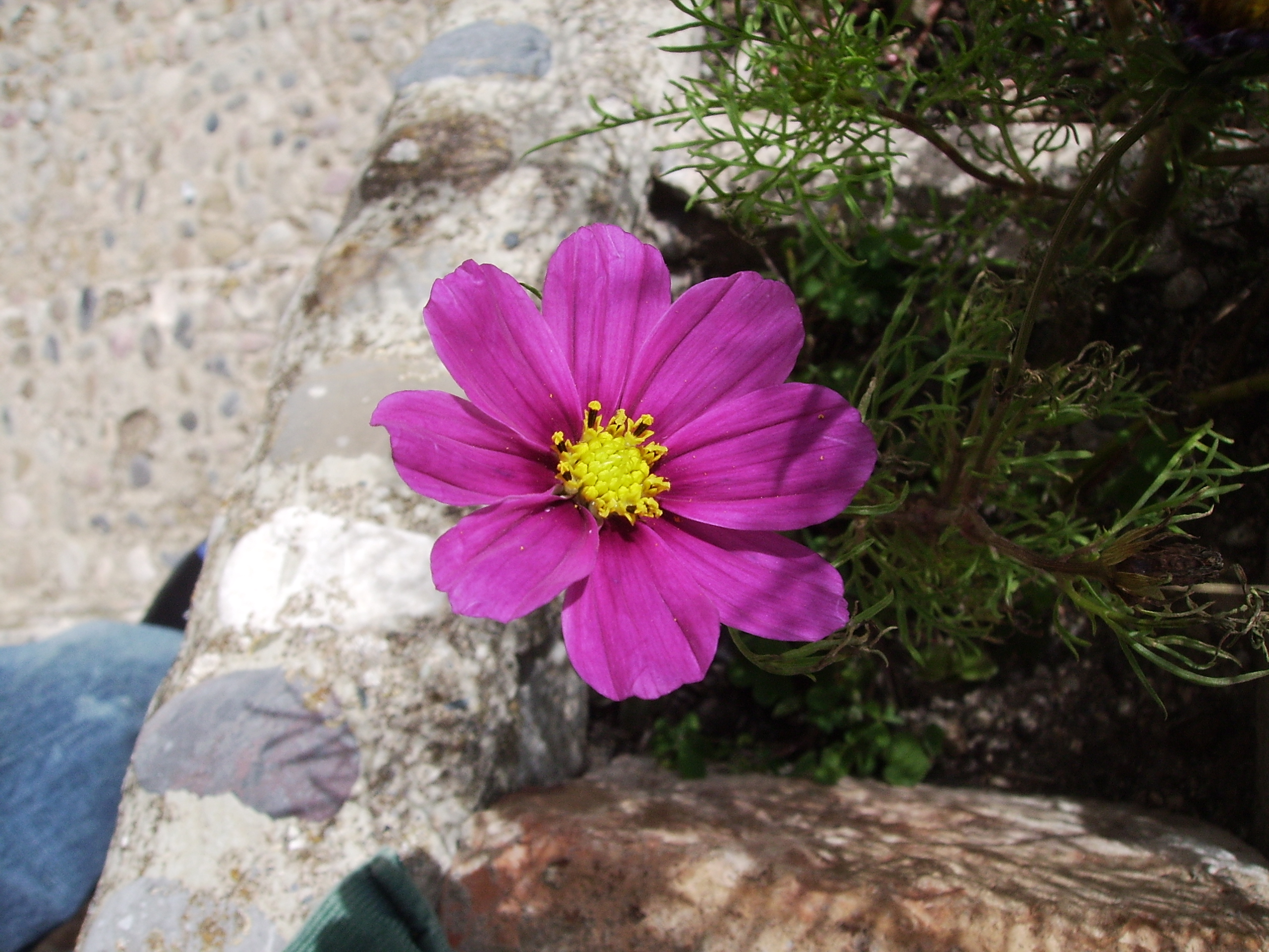 Image:Cosmos plant.jpg My own work october 6 2006 Castelltallat Catalonia